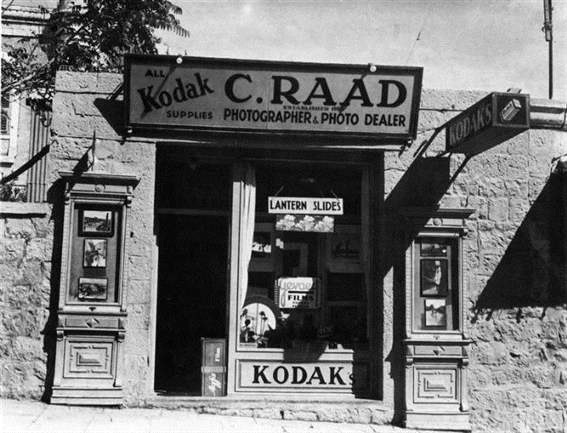 Photograph of Khalil Raad's store at Jaffa gate, Jerusalem.